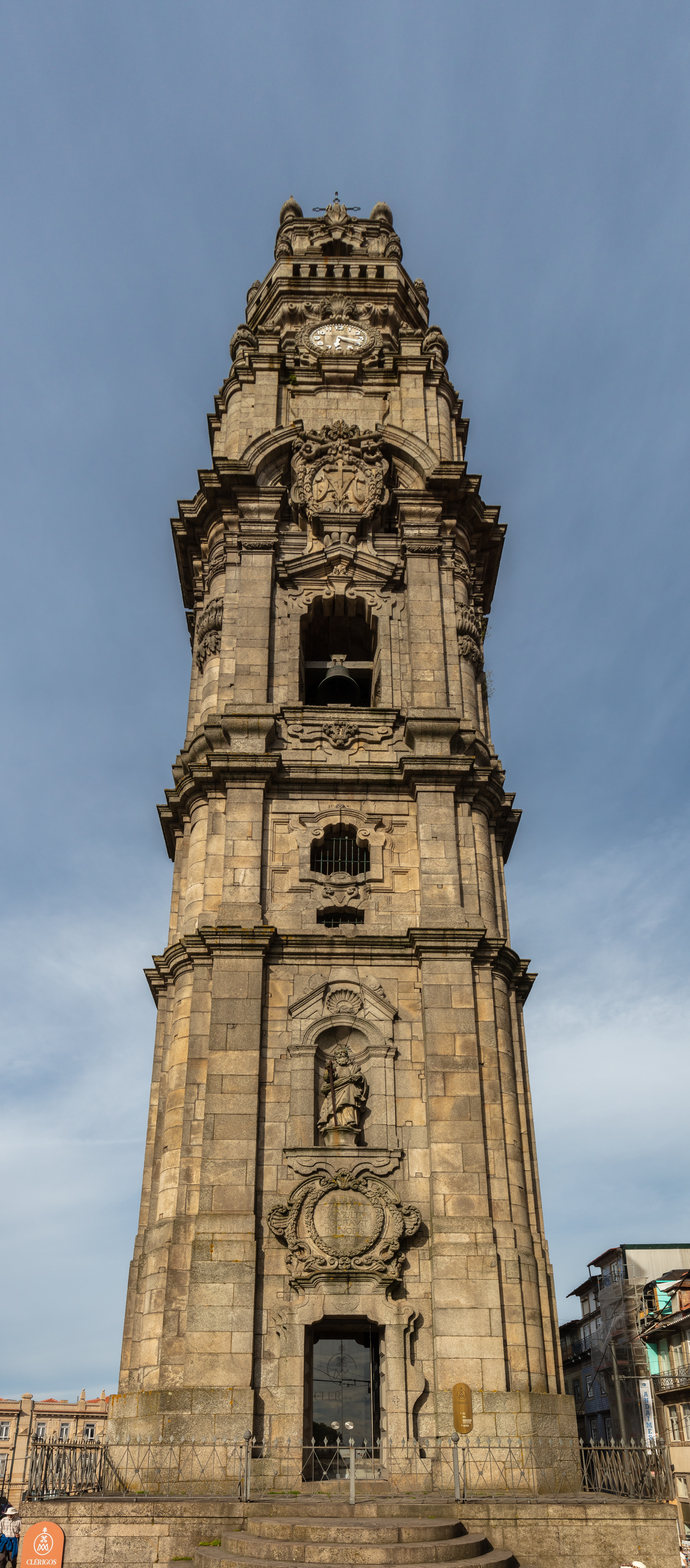 Torre dos Clérigos, Porto, Portugal